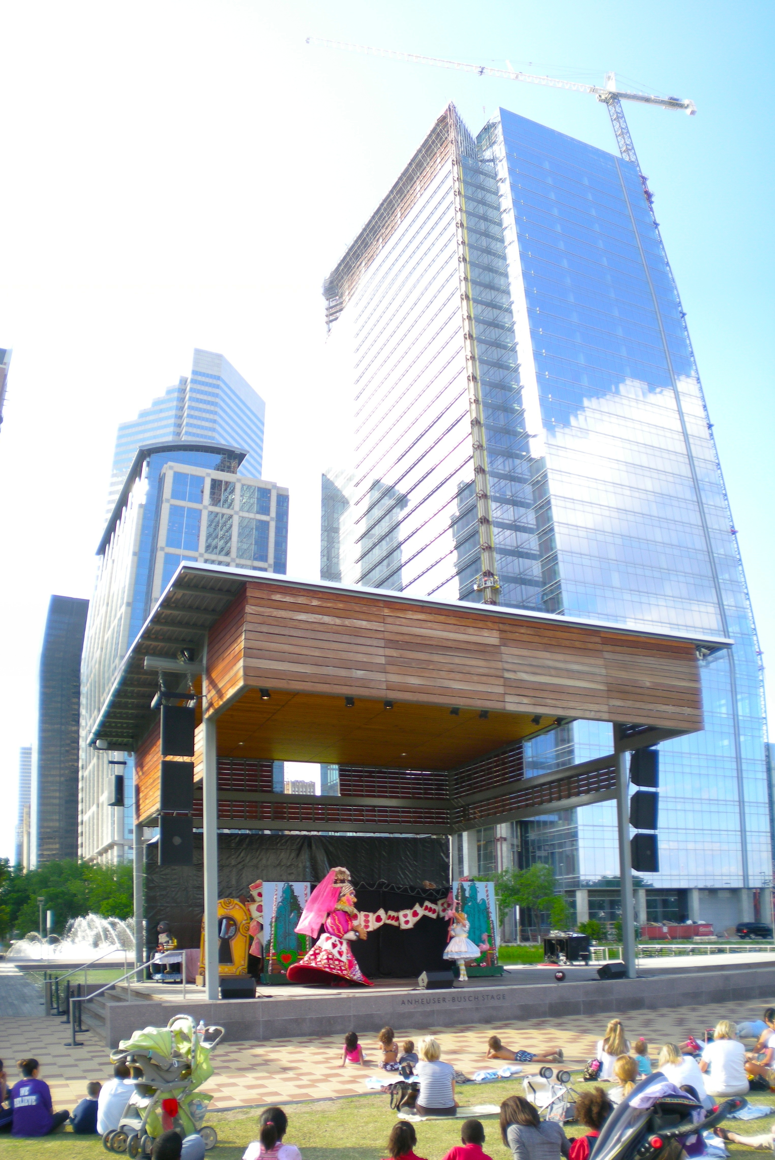 The Anheuser-Busch Stage at Discovery Green with a view of Hess Tower in Downtown Houston